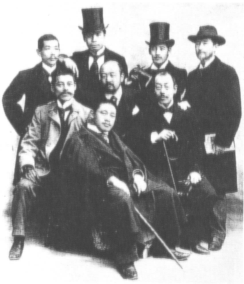 Photo of Japanese artist at Paris about 1885